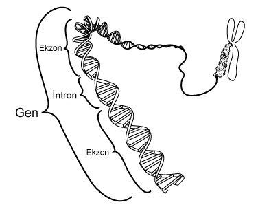 Description: This image shows the coding region in a segment of eukaryotic DNA. *Source: [1] (file) *License: "All of the illustrations in the Talking Glossary of Genetics are freely available and may be used without special permission." [2]